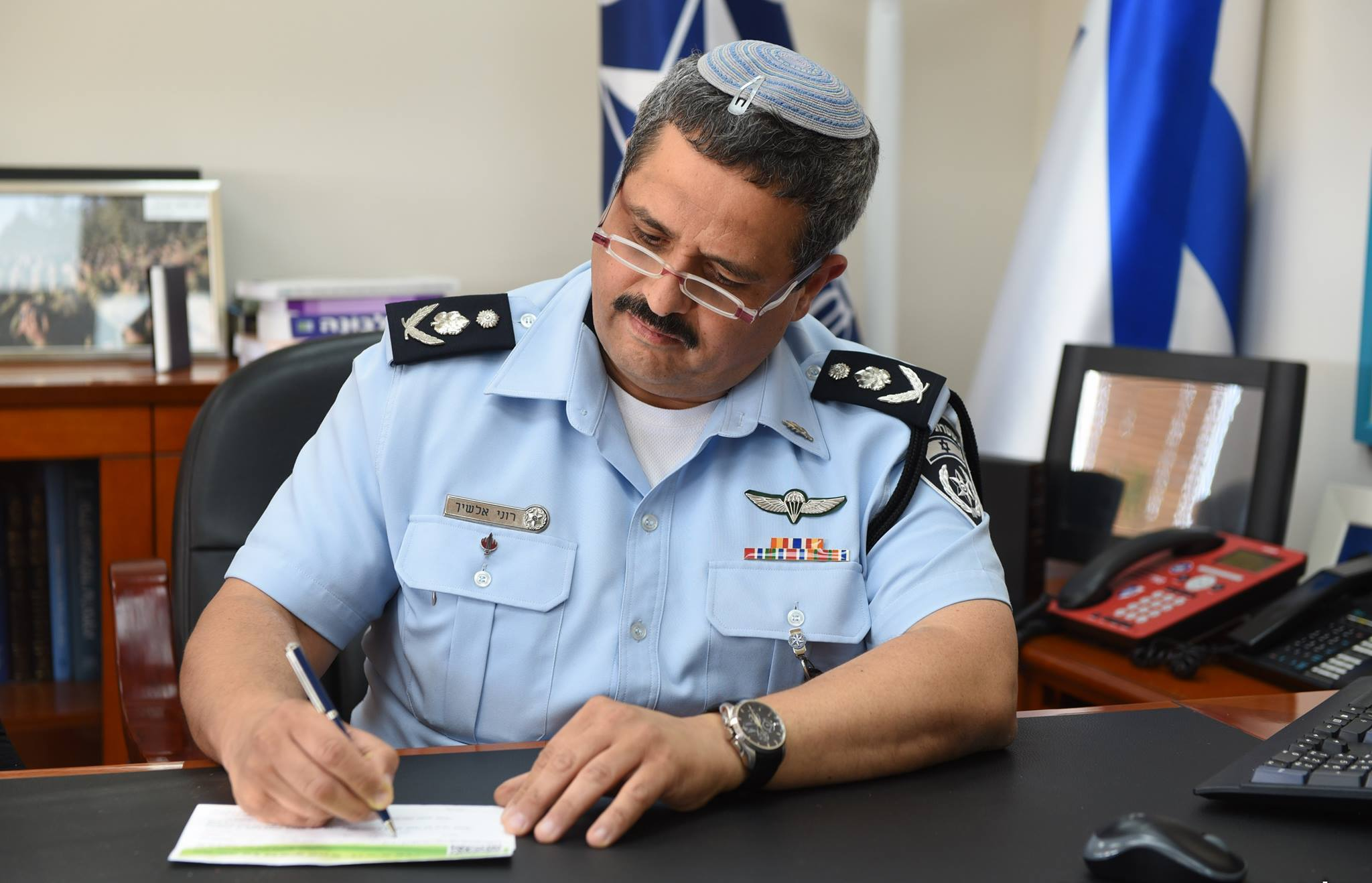 Israeli Police Commissioner Roni Alsheikh signs "Eddie Card" to donate organs in case of death